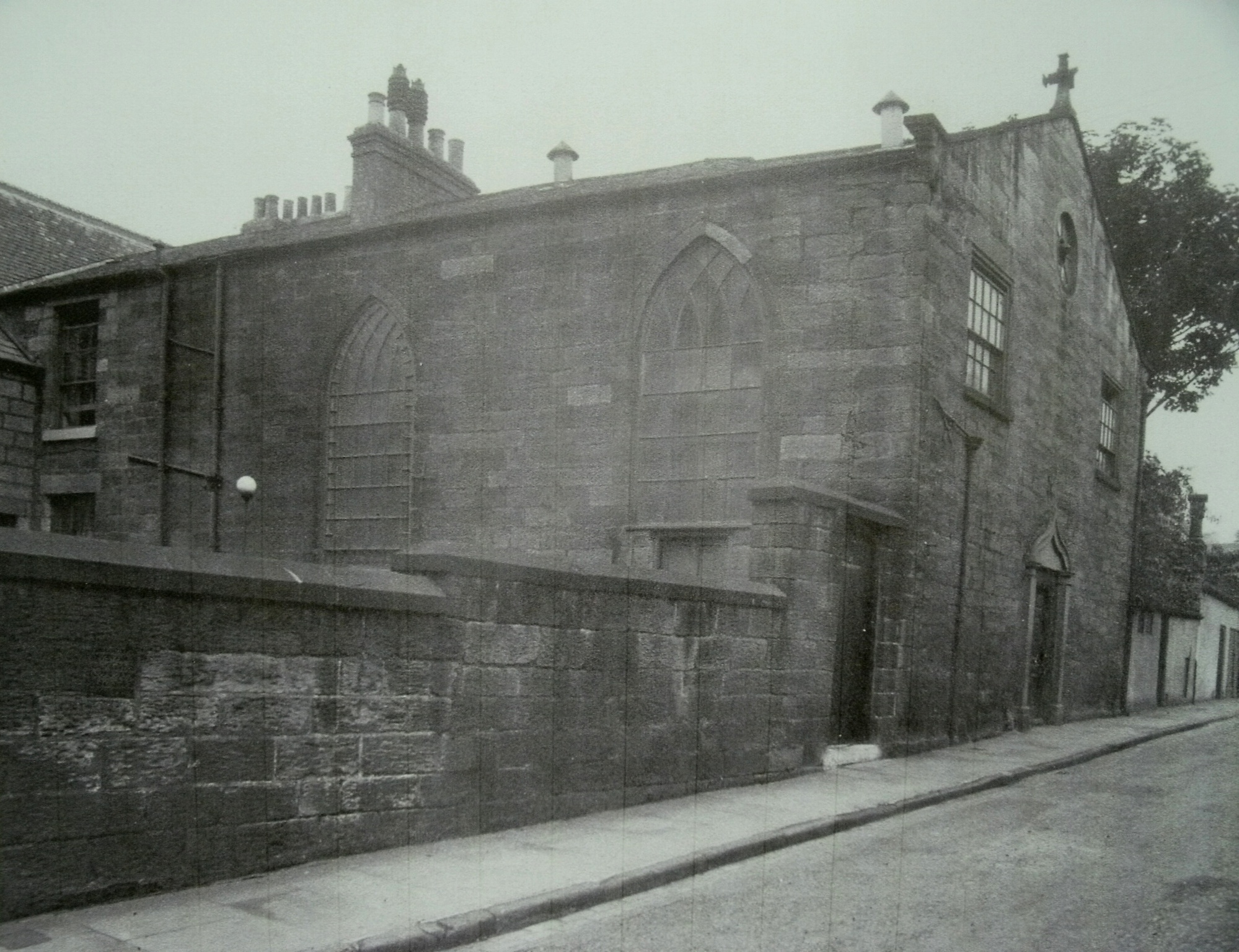 Early photograph of the Catholic chapel at Whitby in the 19th century